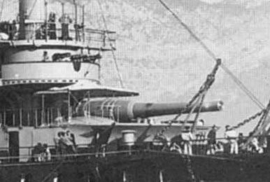 340 mm gun on French battleship Magenta